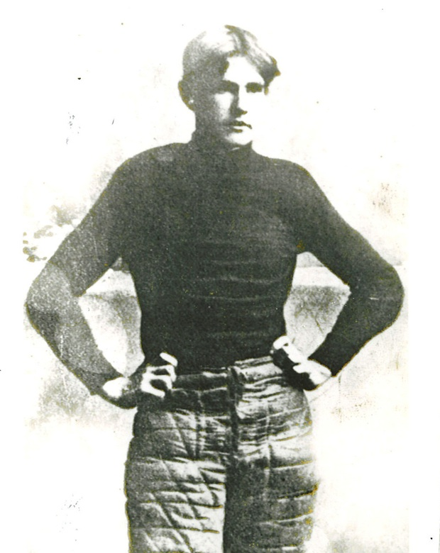 This is a picture of Richard Von Albade Gammon in his athletic attire.